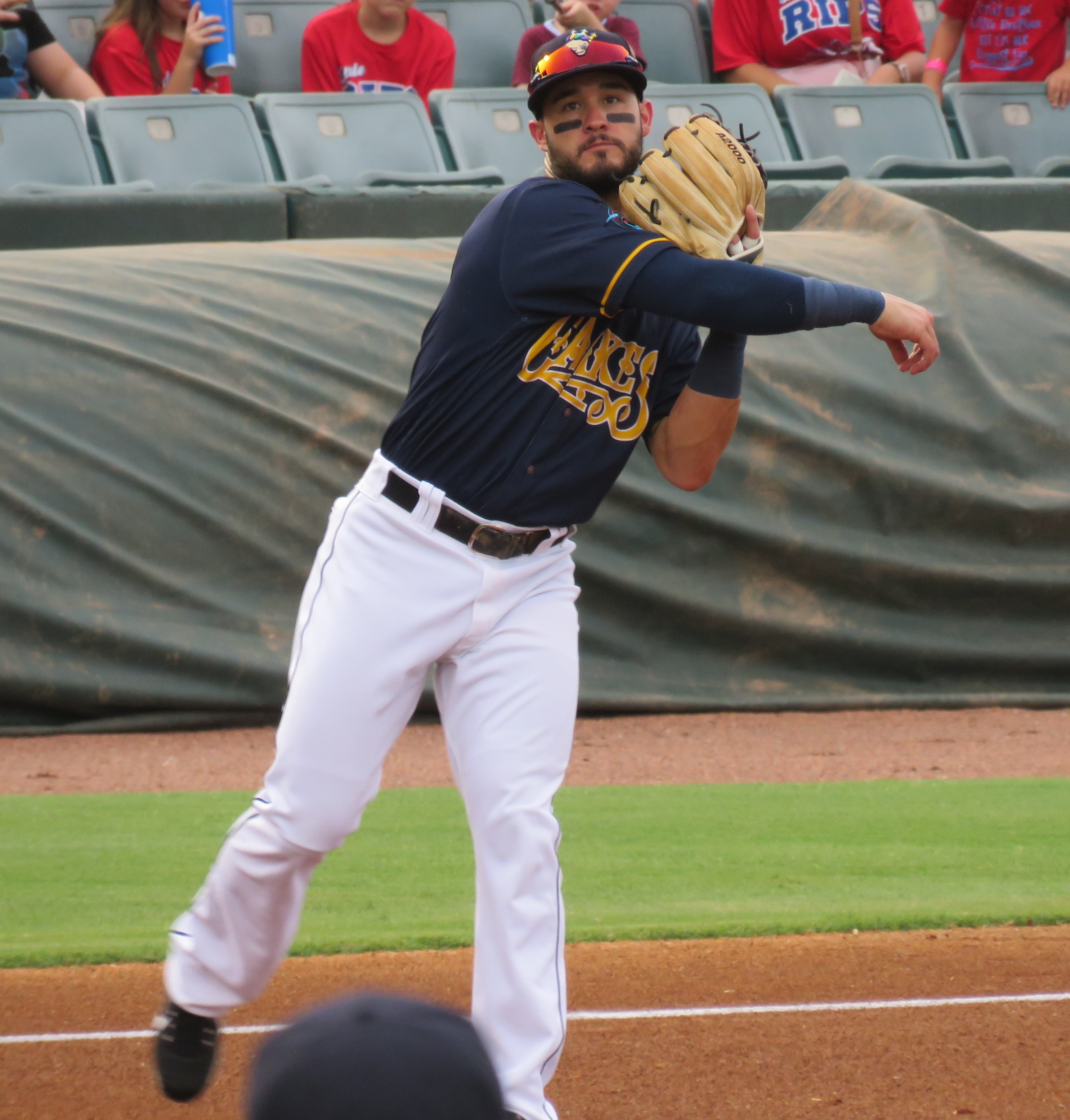 Alvarez having a catch